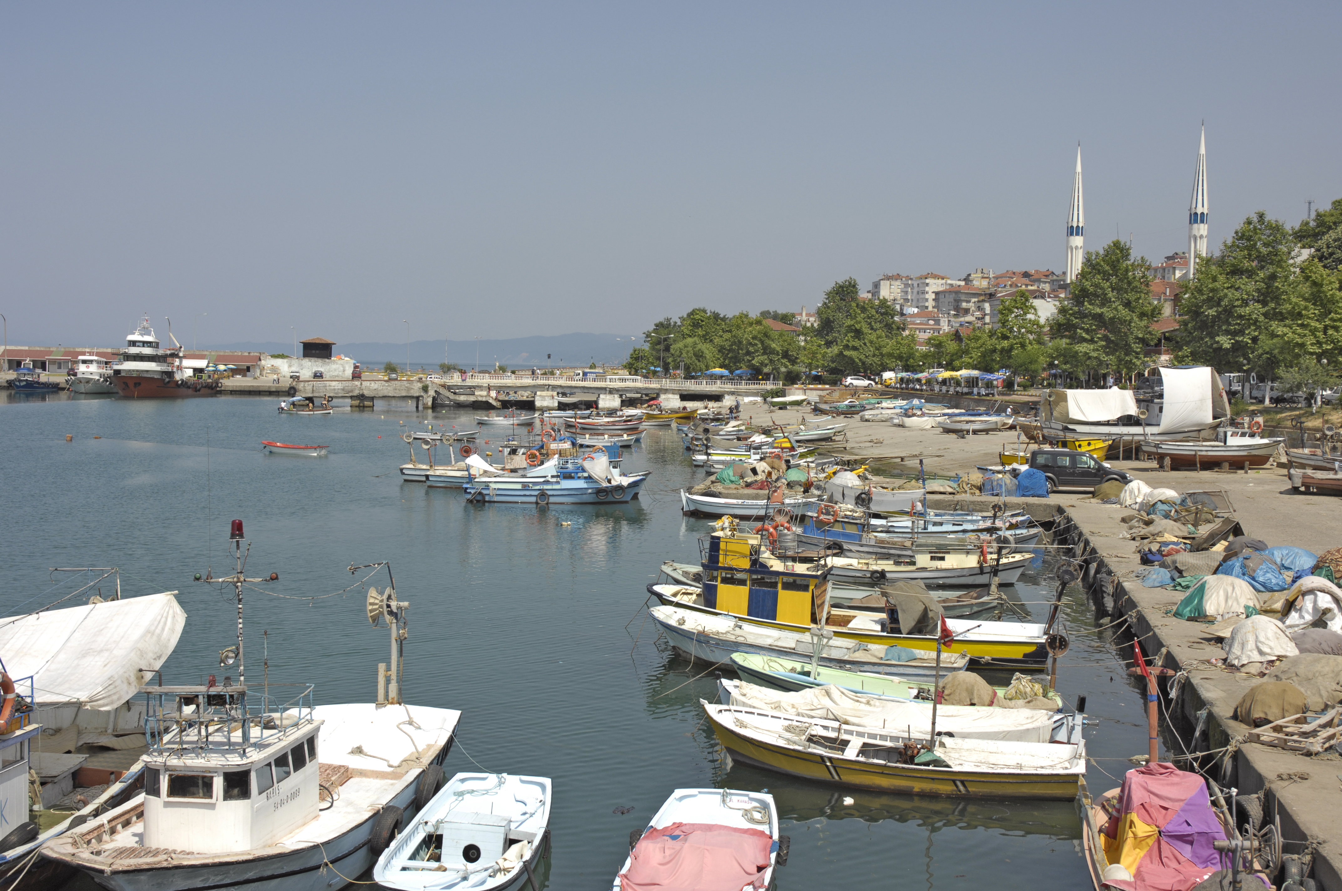 One of pictures taken in 2007 of mainly the area near the beach, or of the beacxh and harbour proper, with some of the rest of town, on which often the minarets of the Merkez Cami, the Central Mosque, can be seen.